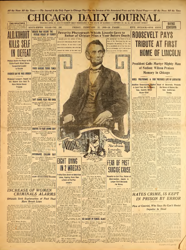 Front page of the February 12, 1909 issue of the Chicago Daily Journal.